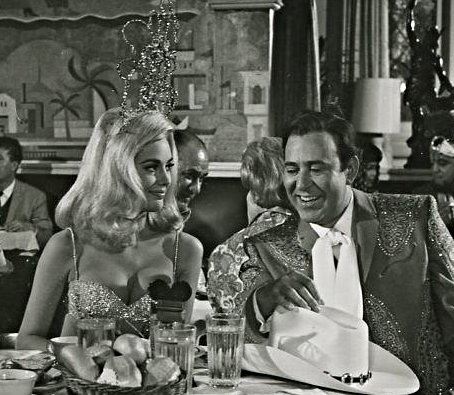 Studio publicity photo of Linda Harrison and Carl Reiner in A Guide for A Guide for the Married Man